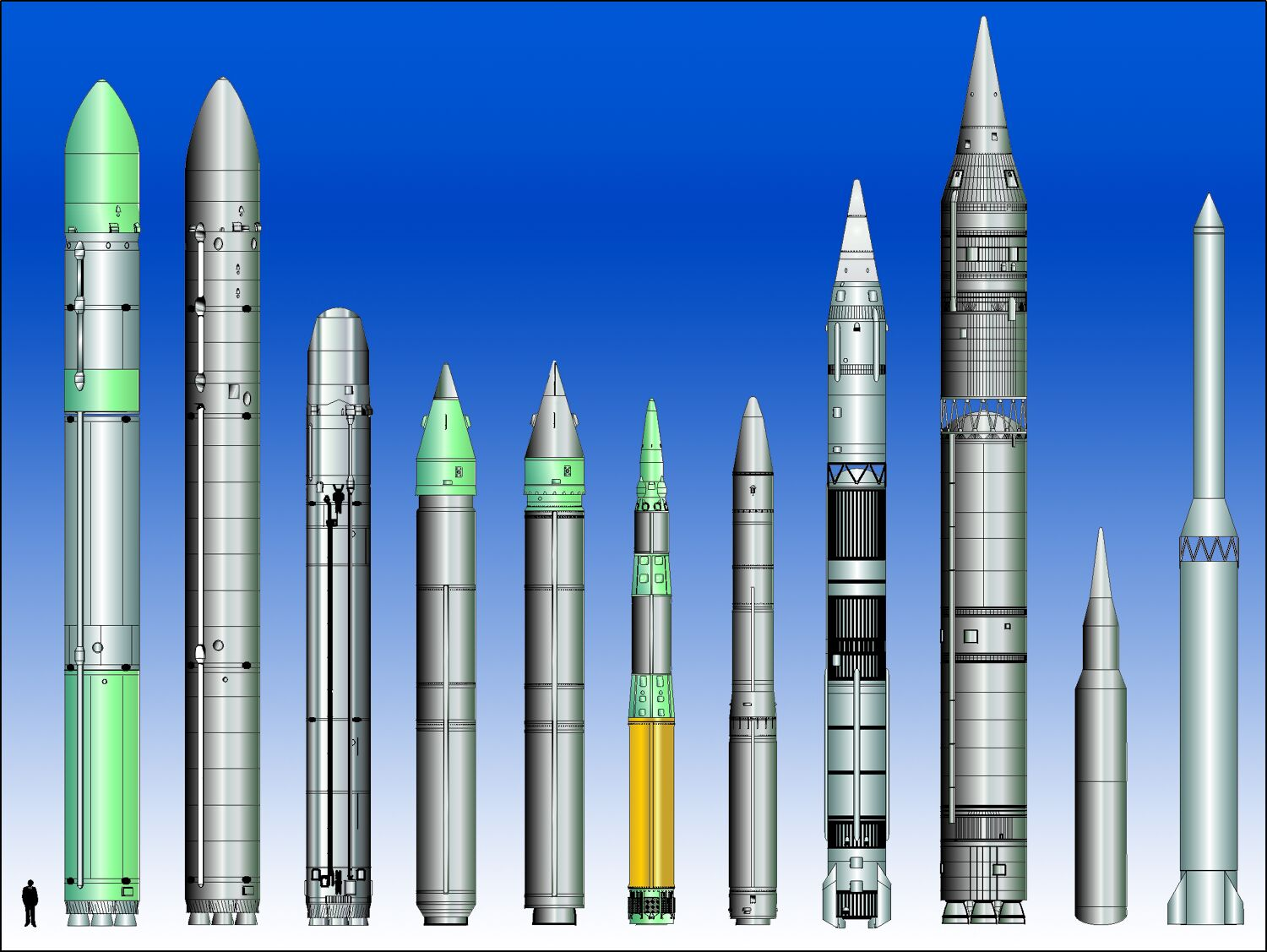 ICBM (Intercontinental ballistic missile) Comparison.